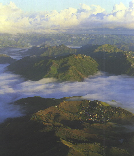 Mountains over Cayey municipality of Puerto Rico